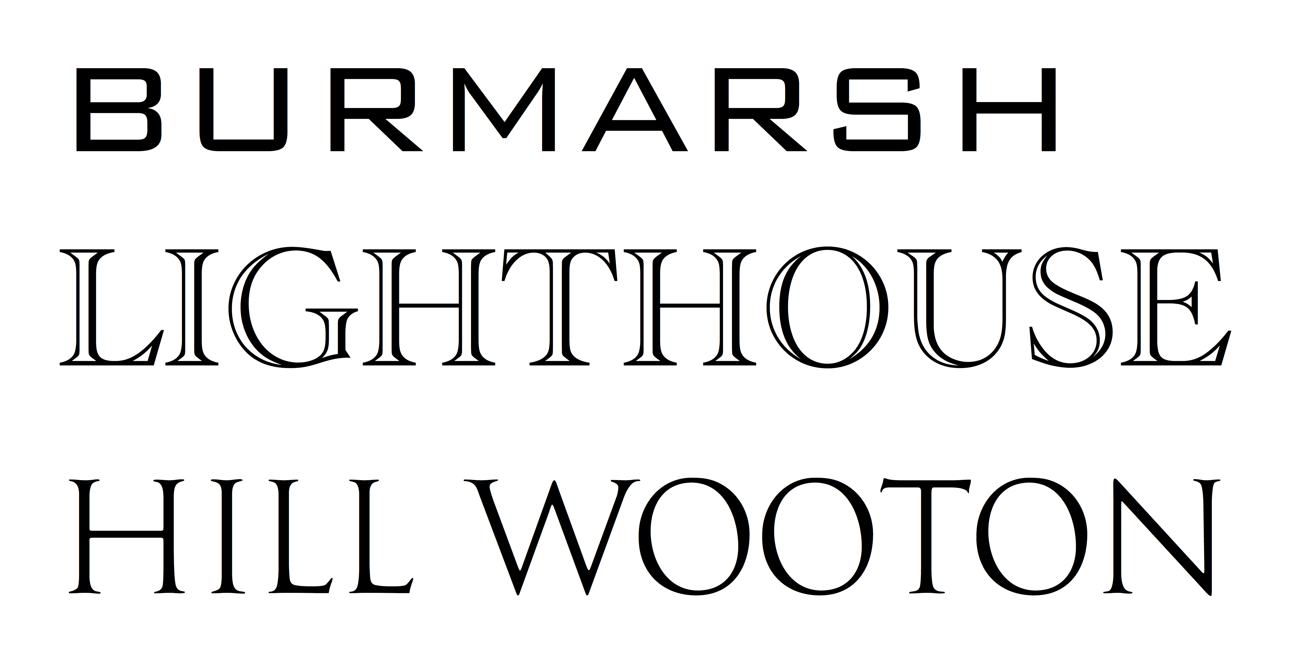 Three so-called display or ornamental typefaces, designs intended for headings and notices rather than for body text. Bank Gothic, Academy Engraved and Goudy's Trajan.